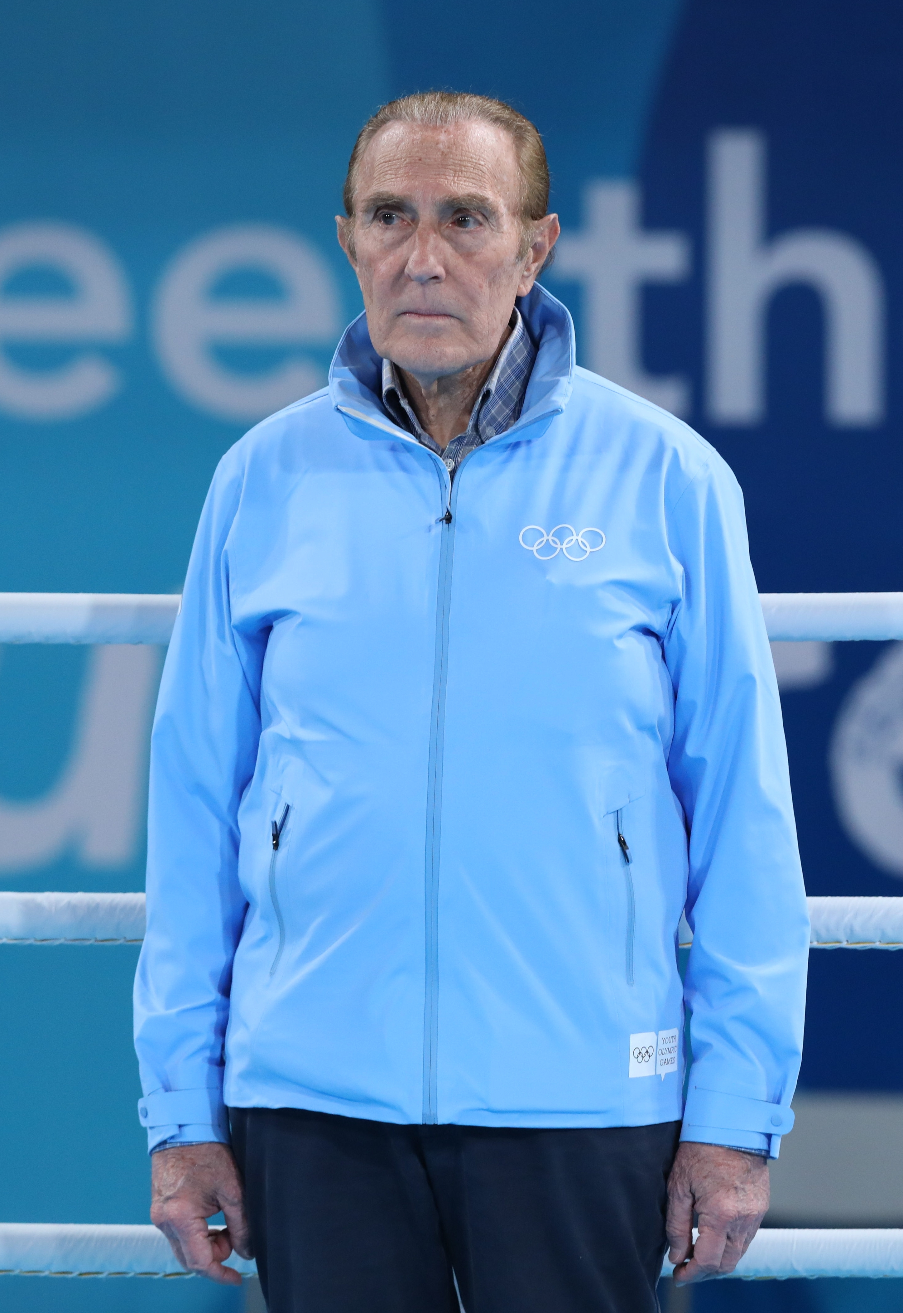 Victory ceremony of the boys' –75 kg (middleweight) at the 2018 Summer Youth Olympics in Buenos Aires on 17 October 2018.